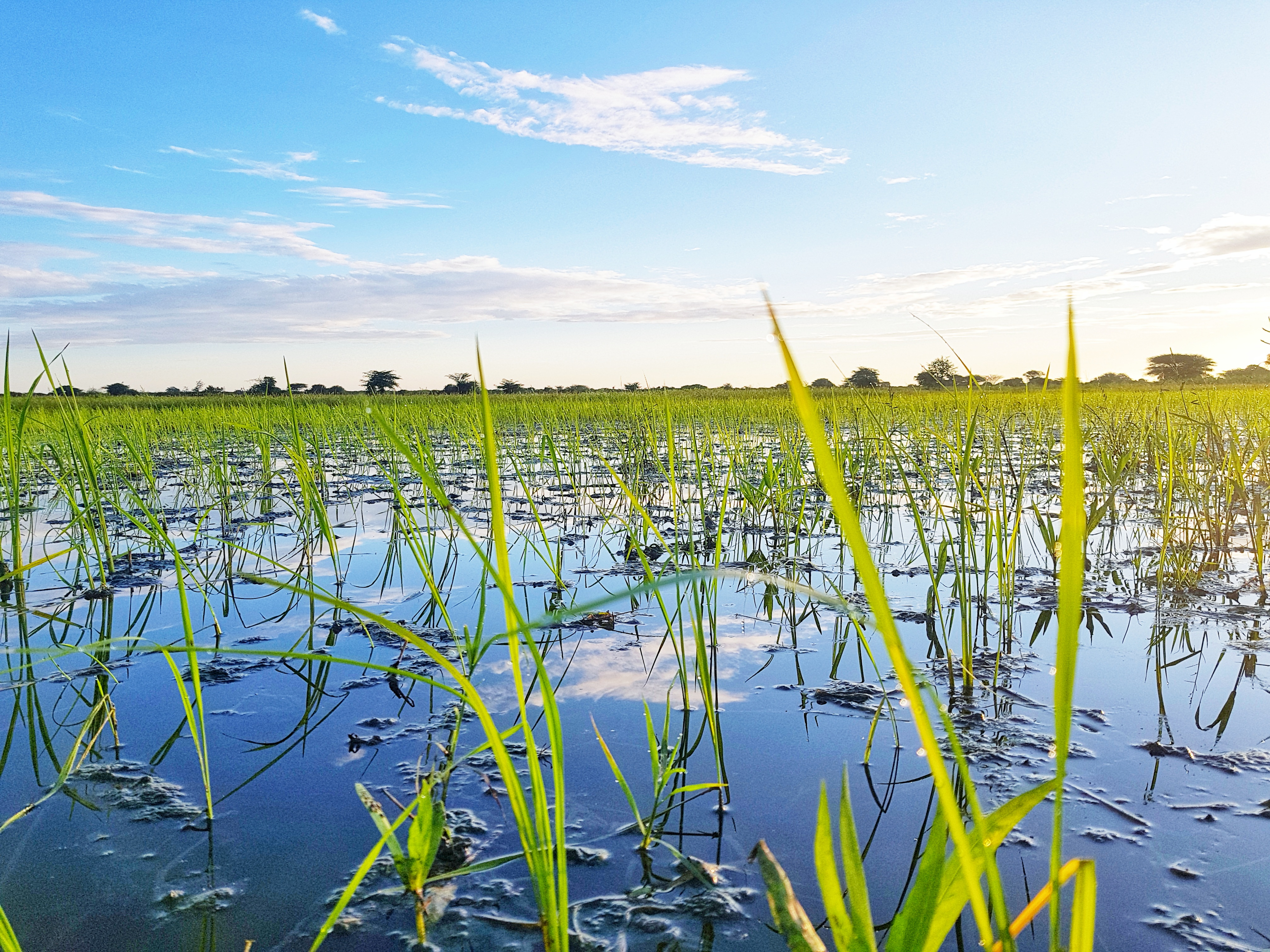 This is an image with the theme "Africa on the Move or Transport" from: Tanzania